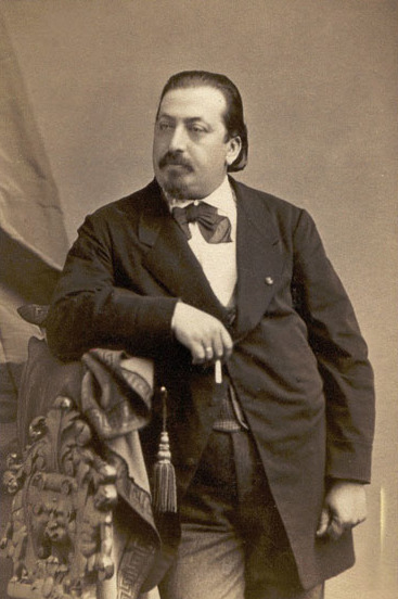 Henryk Wieniawski